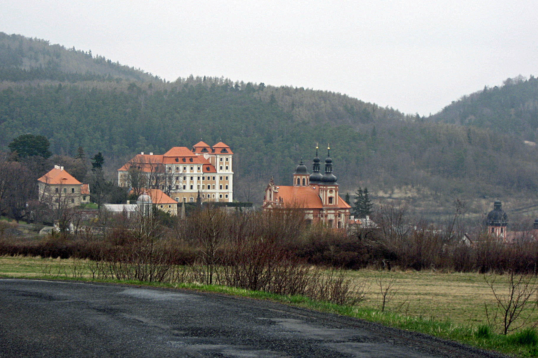 Chateau Valeč, (Karlovy Vary District, Czech Republic)